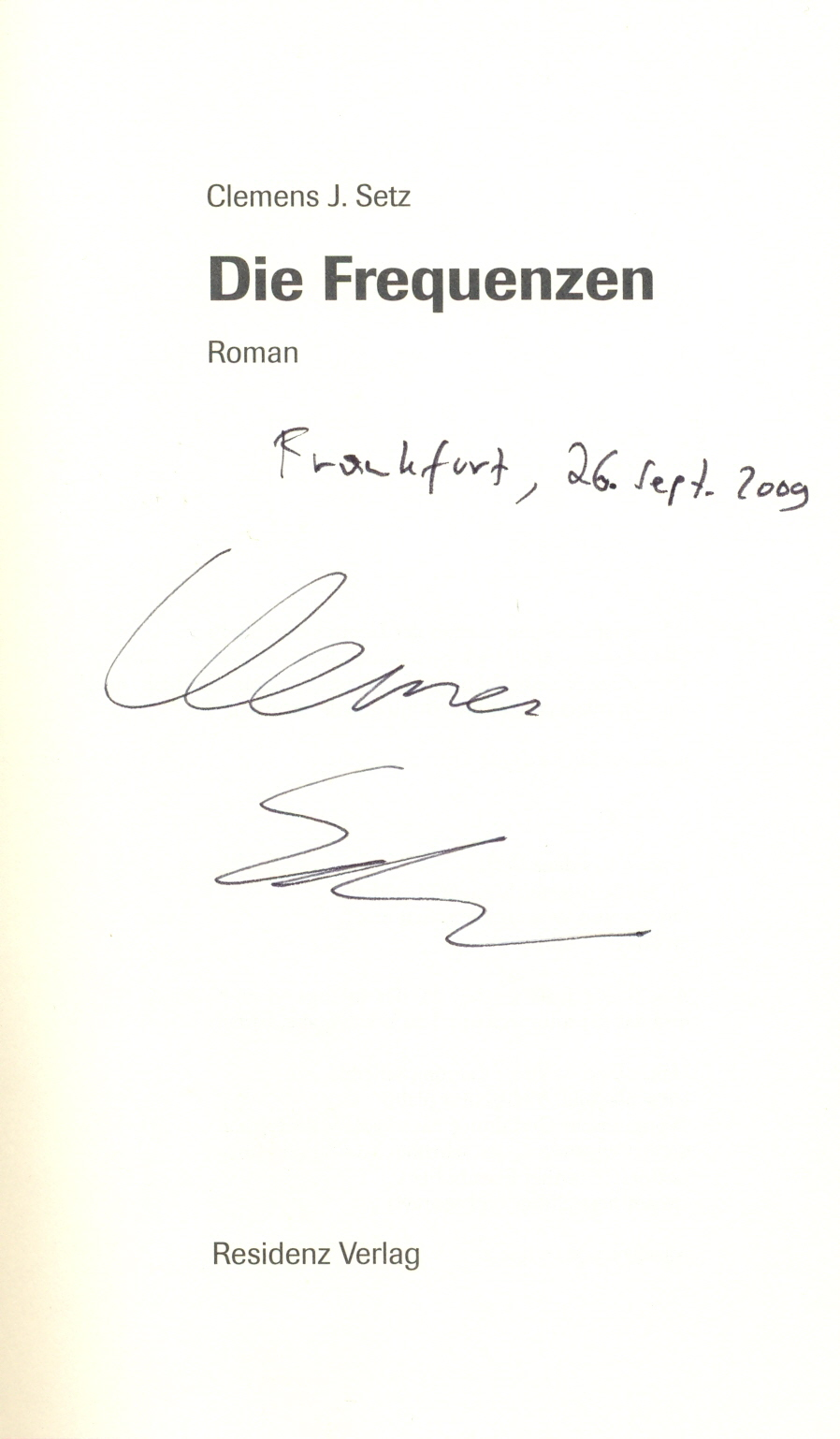 Autograph from Clemens J. Setz, Austrian writer